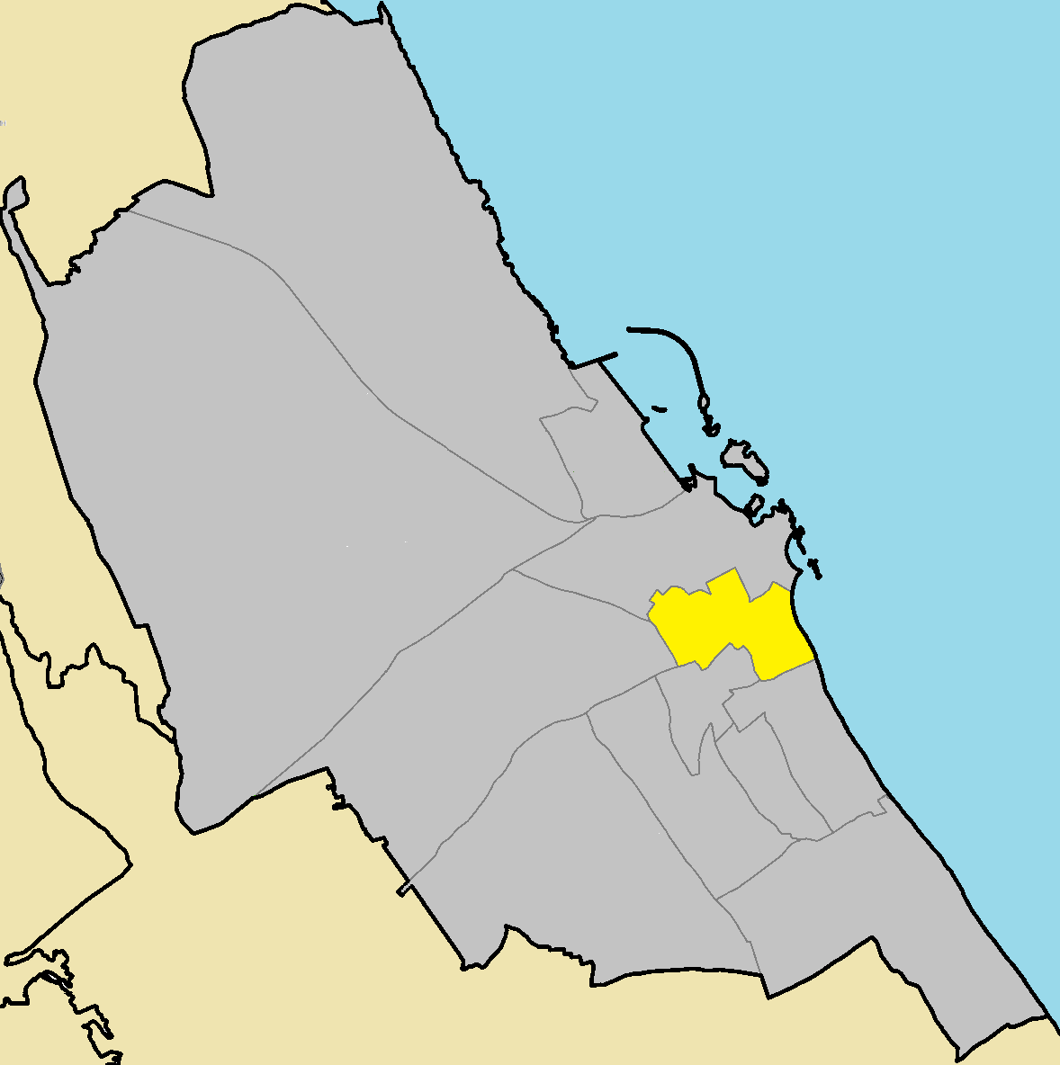 Agios Nikolaos in Famagusta Municipality (de jure).